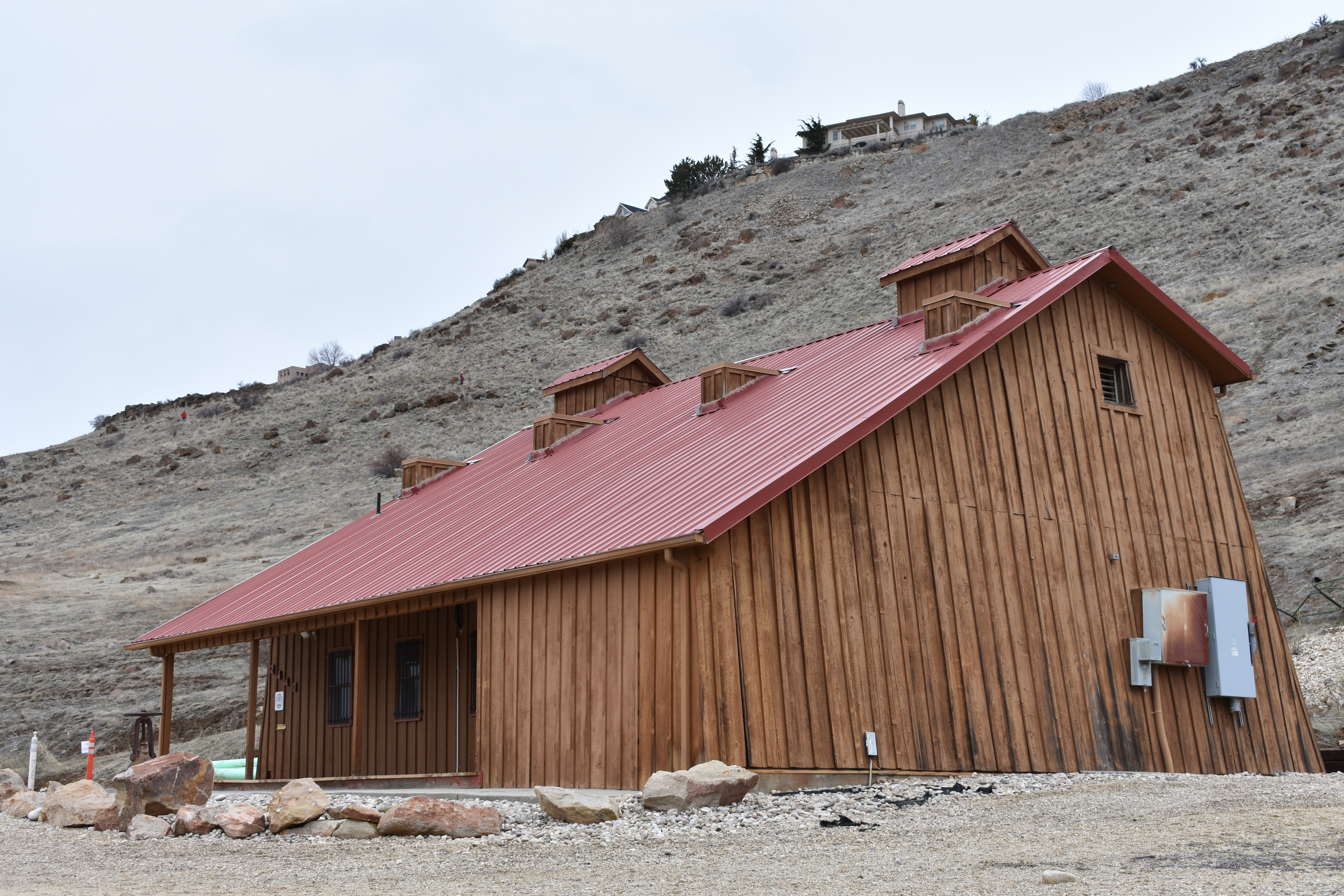 The Boise Artesian Hot & Cold Water Company Pumphouse and wells in Boise, Idaho, are listed on the National Register of Historic Places.